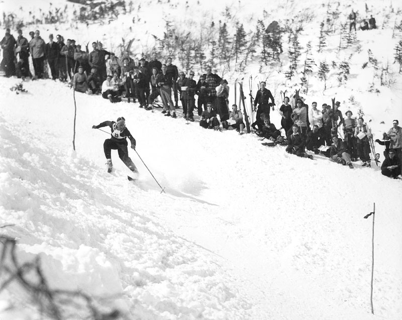 Walter Prager in the 1937 Edson Memorial Race in Tuckerman Ravine. Prager, coach of the Dartmouth ski team, won the race.